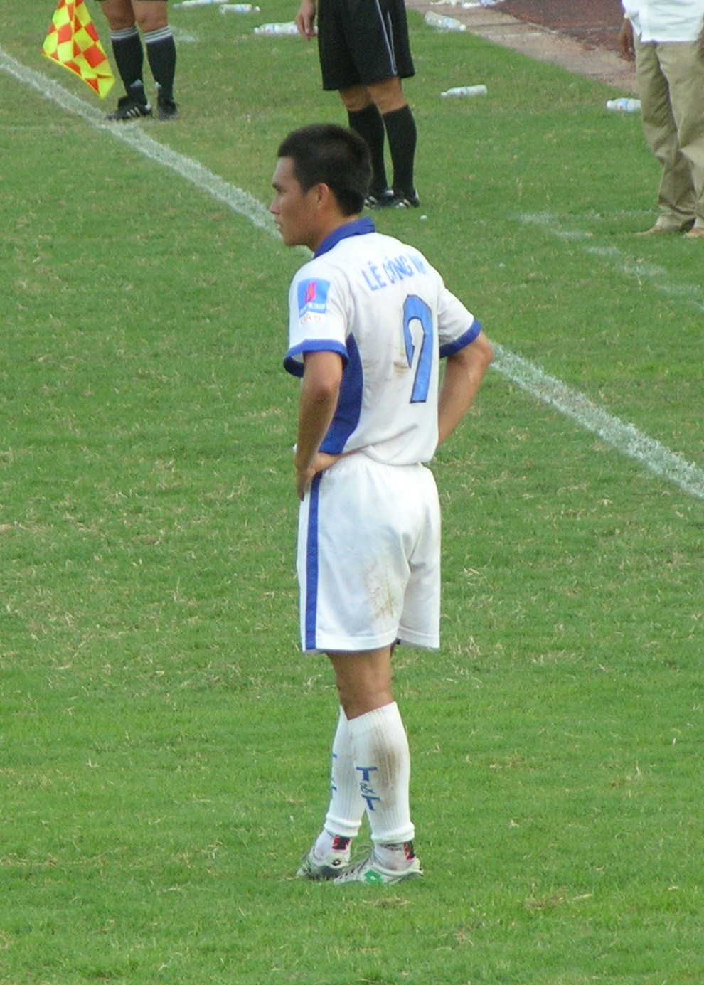 Le Cong Vinh in T&T Hà Nội in V-League 2009.